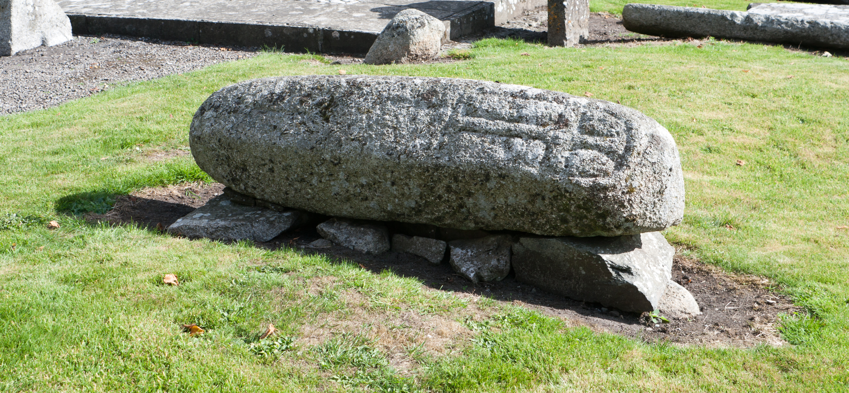 North side of the Castledermot hogback, the only known hogback in Ireland.